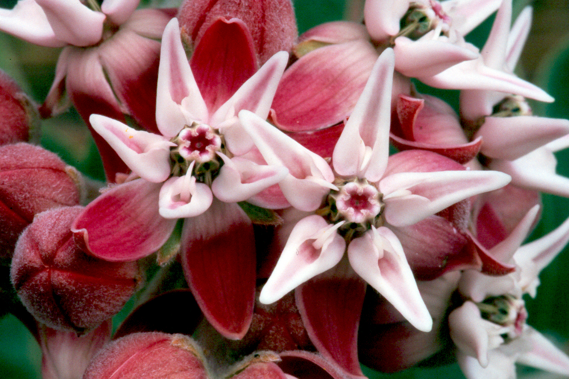 Scientific name: Asclepias speciosa Common name: Showy Milkweed Spring is here and the flowers are in full bloom at one of Oregon's natural gems. Located on the western edge of Eugene, Oregon, the West Eugene Wetlands (WEW) is a beautiful and rare area of grassland habitats. Comprised of less than one percent of the original native wet prairie, the WEW is home to over 200 species of wildflowers, plants, birds, and animals, including four threatened and endangered species: Fender’s blue butterfly, Kincaid’s lupine, Bradshaw’s lomatium, and Willamette daisy. The BLM's Eugene District, in collaboration with other Rivers to Ridges partners, works to protect and restore this vital wetland ecosystem in the Southern Willamette Valley. This unique project involves federal, state, and local agencies, as well as non-profit organizations, working together to manage lands and resources in an urban area for multiple public benefits. Each year, Willamette Resources & Educational Network (WREN) provides hands-on, minds-on environmental education to over 1,500 local students. Photo credits: Christine Williams, Mackenzie Cowan, Sandra Miles, Sally Villegas, and West Eugene Wetlands staff. For directions or to plan a visit to the West Eugene Wetlands